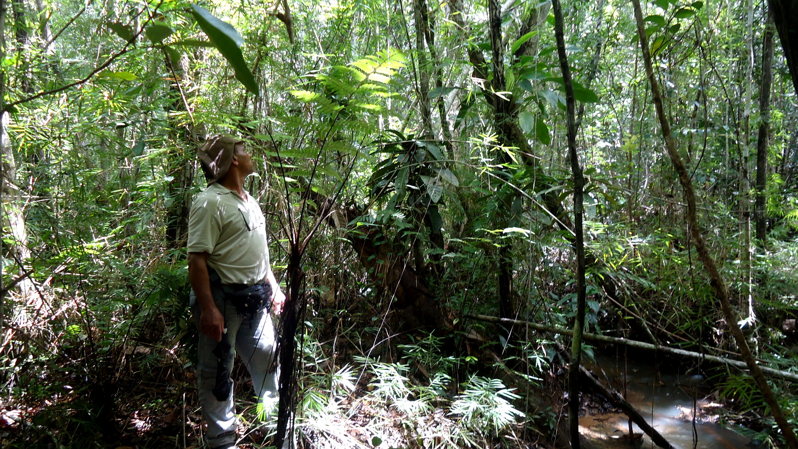 Cyathea pungens Domin